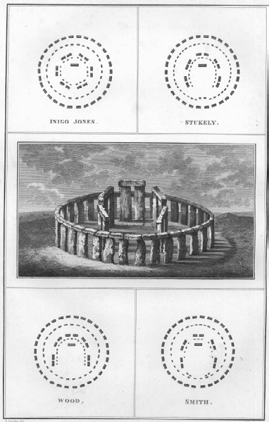 From William Cunnington and Richard Colt Hoare’s Ancient History of Wiltshire, 1810–12, a plate illustrating the four most important theoretical reconstructions to date.